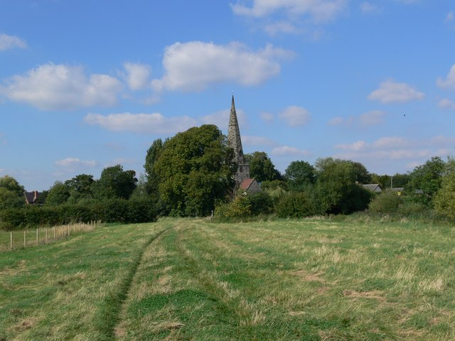 St. James Church, Normanton on Soar Viewed from the 'towpath' of the Grand Union Canal/River Soar.